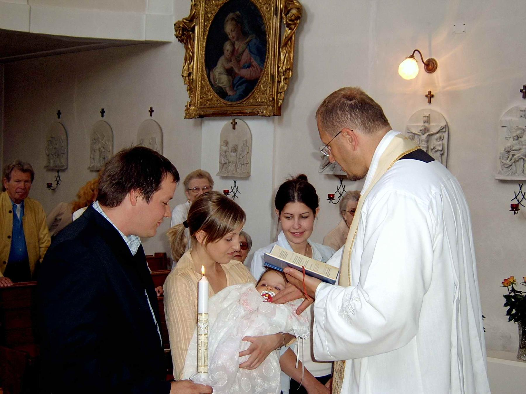 A Roman Catholic priest baptizes an infant as his parents look on.